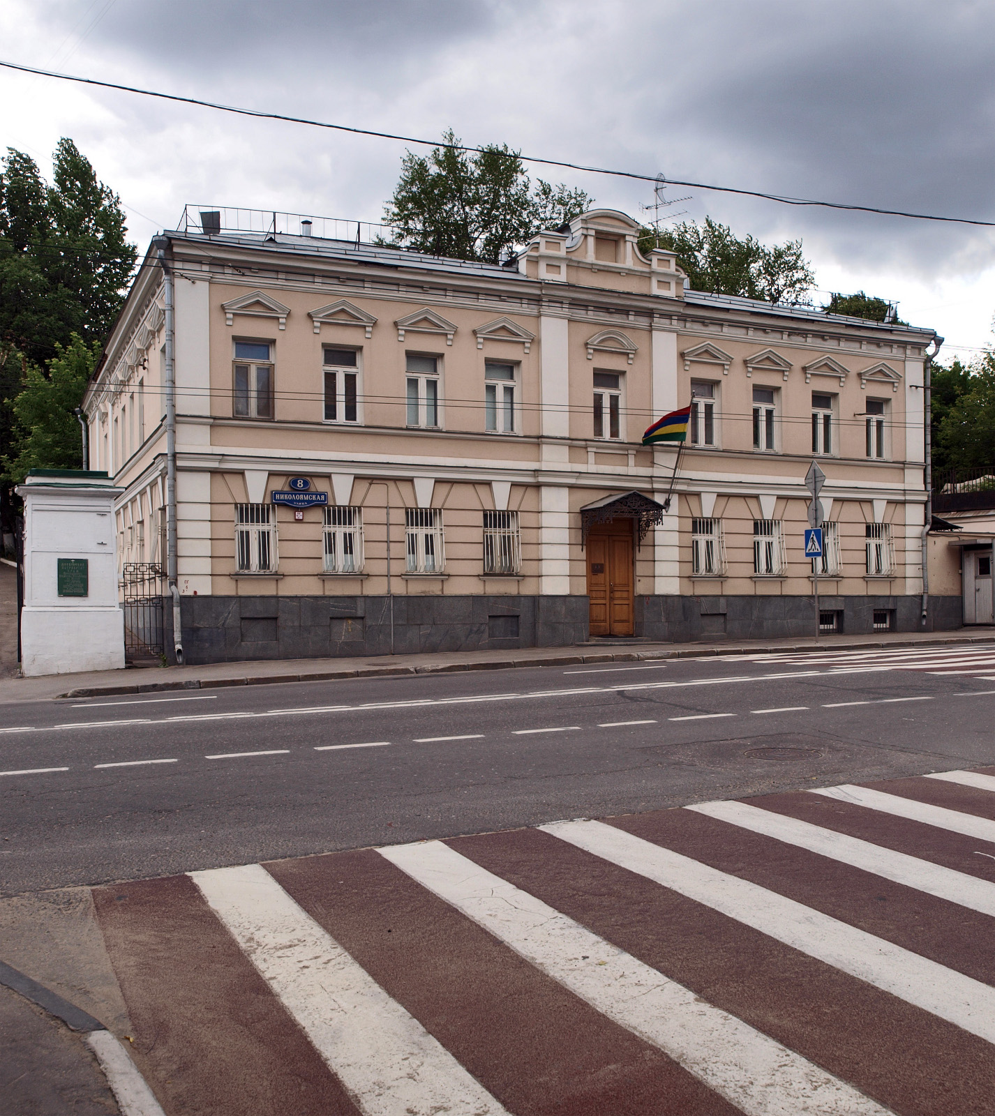 Moscow, Nikoloyamskaya Street.